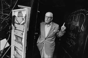 Theodor Ahrenberg